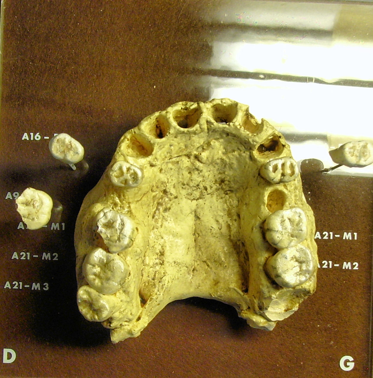 Fossil Arago I = Homo erectus from Tautavel, France (replica, Museum Tautavel)